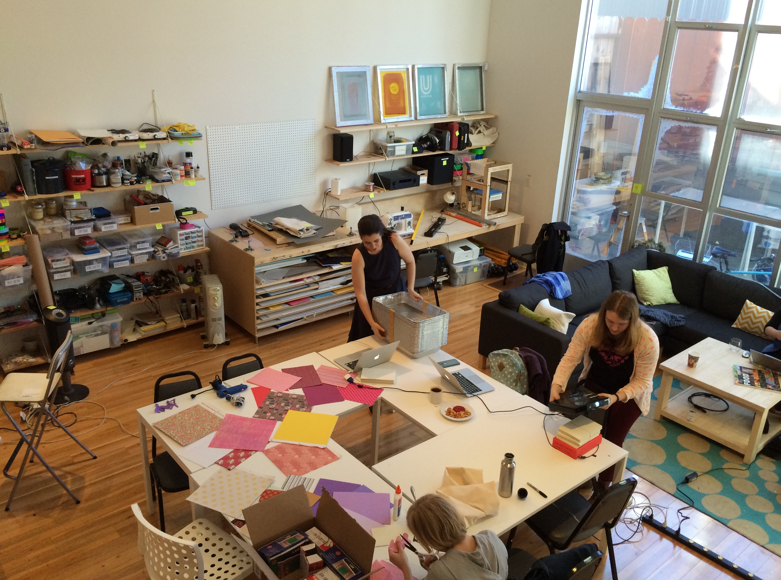 An event at Double Union, a maker/hackerspace in Potrero Hill, San Francisco.